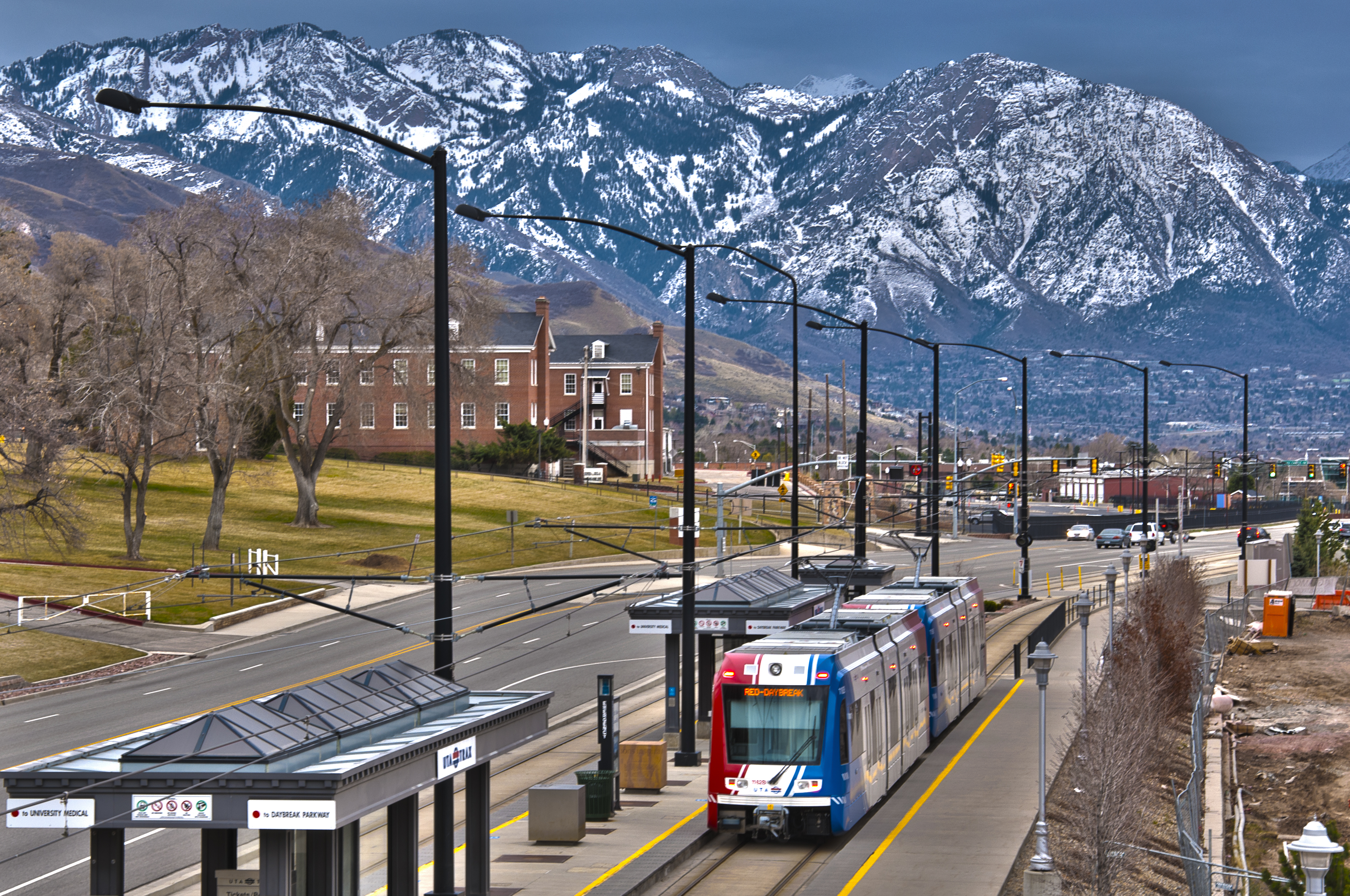 A Siemens LRV at Fort Douglas with the Wasatch Range in the background.